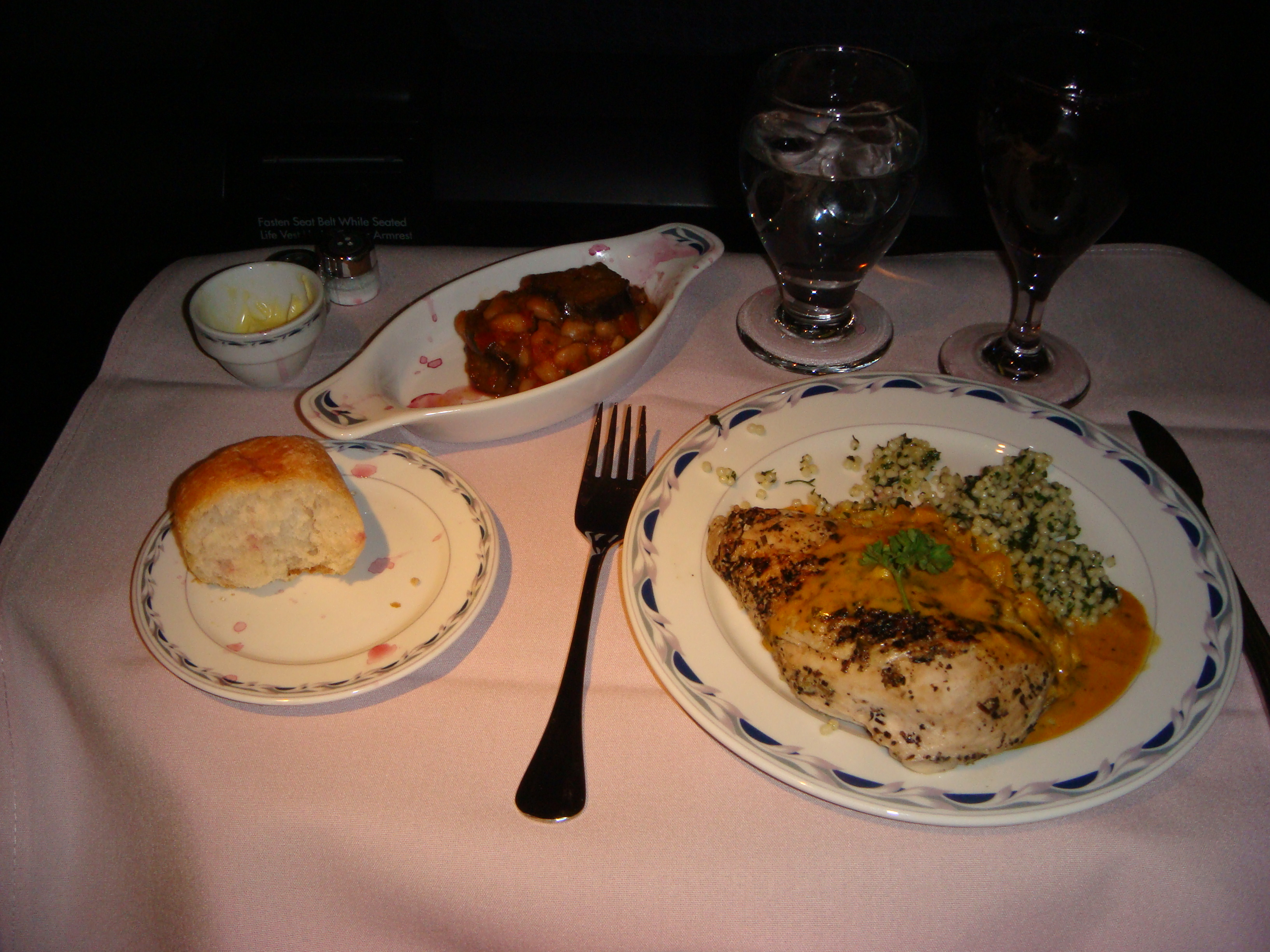 From CDG to IAH in Business-First.